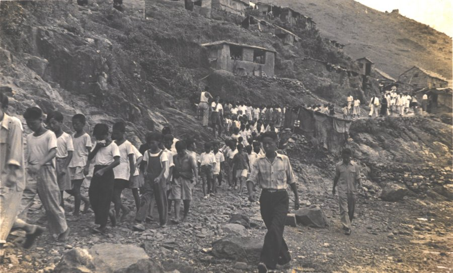 1950 of Tiu Keng Leng 中文（香港）: 1950年的調景嶺